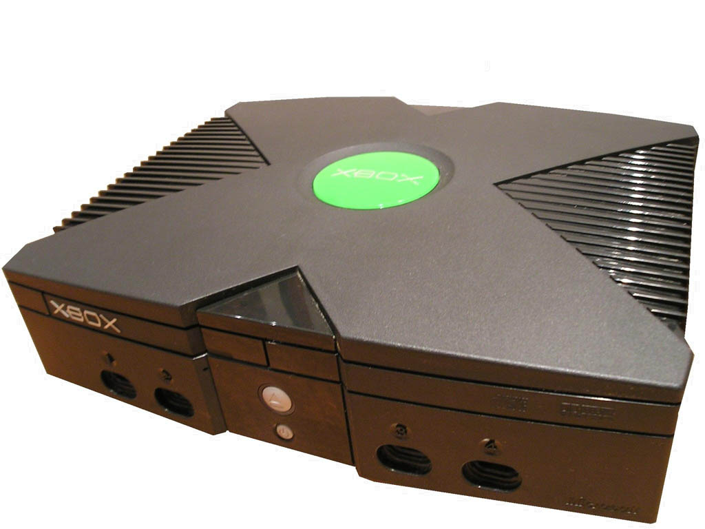 This is an altered version of Image:Xbox.jpg: Transperant Backgrounf PNG file instead of jpg Note: Image:Xbox.jpg: was based on Beethovens Image:Xbox_1.jpg.